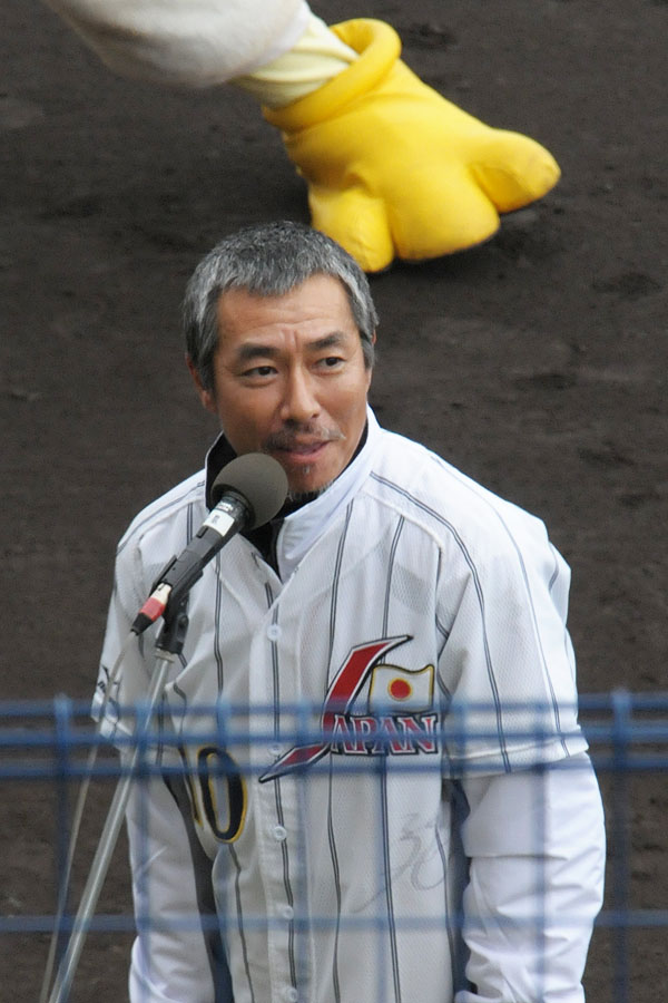 Japanese actor Toshiro Yanagiba at Akita Komachi Baseball Stadium